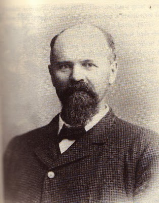 John Rock of San Jose and the California Nursery Company, b 1836, germany